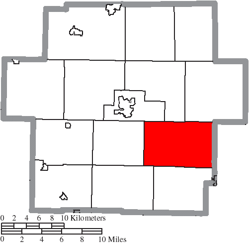 Map of the municipal and township boundaries of Carroll County, Ohio, United States, as of the 2000 census, with the location of Lee Township highlighted. Township borders are shown only in unincorporated areas in order to differentiate incorporated and unincorporated areas more clearly.